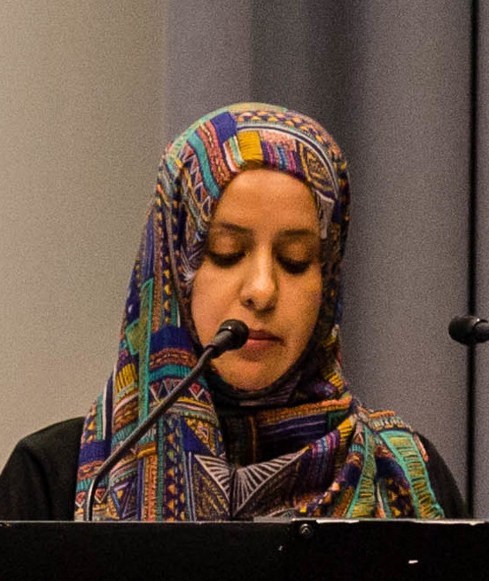 CSP 2017, day 1 11th September 2017 Radhya al-Mutawakel, of Mwatana Organization for Human Rights Photo: Control Arms/Ralf Schlesener